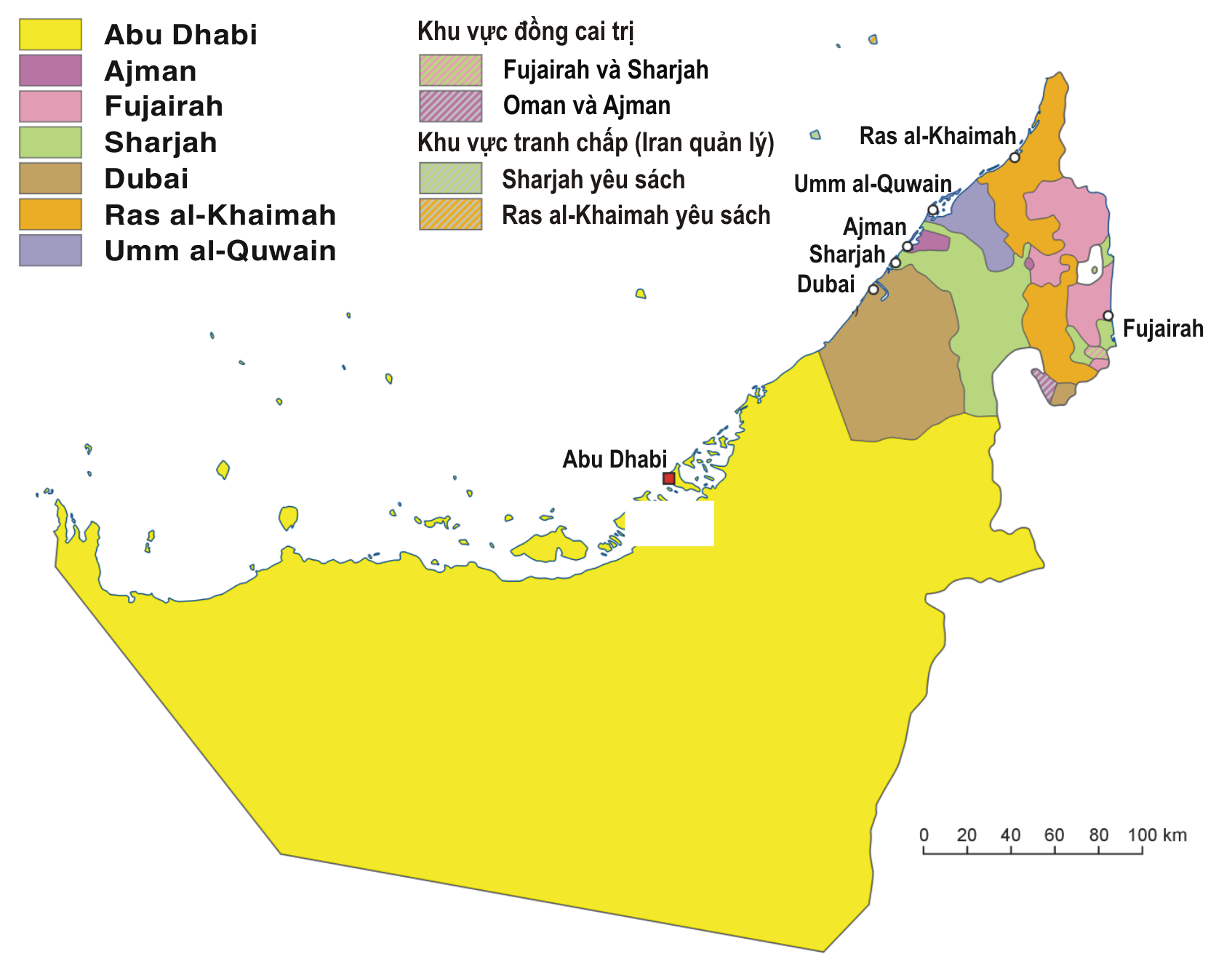 Administrative map of the United Arab Emirates in Vietnamese